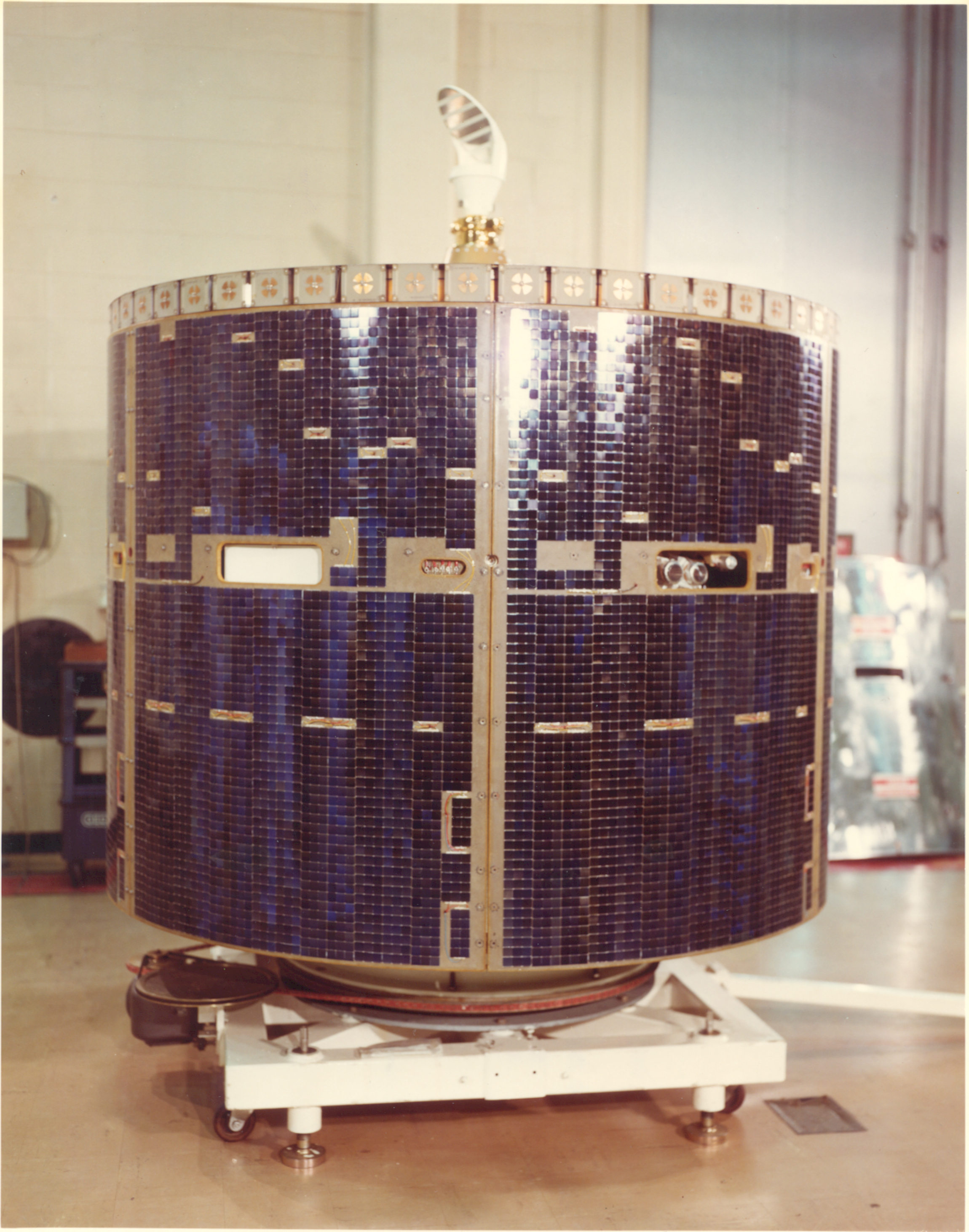 Skynet 2B, the second and last Skynet 2 satellite, being unpacked at Cape Canaveral, Florida, USA, for launch processing. It was successfully launched November 22, 1974.